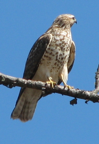 1st year/2CY Red-shouldered Hawk